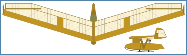 Lippisch/Phillip Storch 8 Flying wing